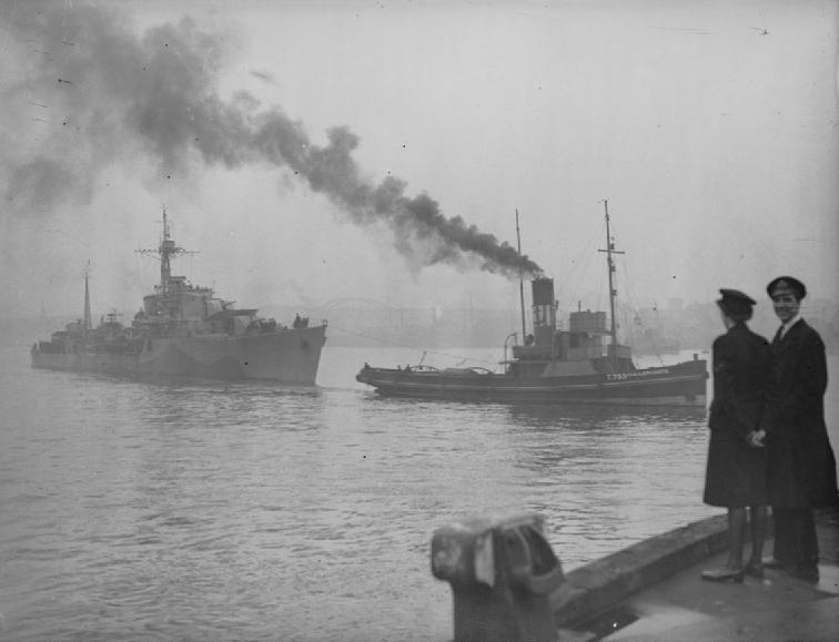 IWM caption : HMS KEMPENFELT and its tug escort arriving at Newcastle from the Normandy coast where it was helping to keep open the Allied supply lines to the Allied beachhead.